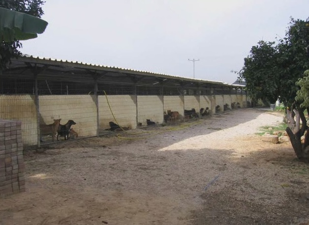 Tnu Lahayot Lihyot - Let the Animals Live